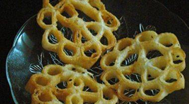 own work